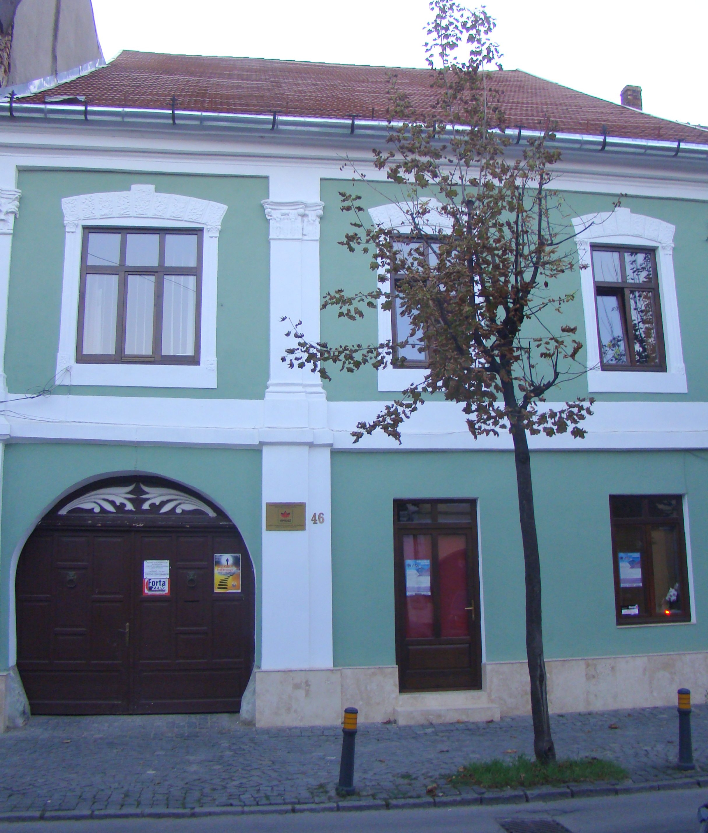 House, historic monument, in Bistrița, Nicolae Titulescu street 46